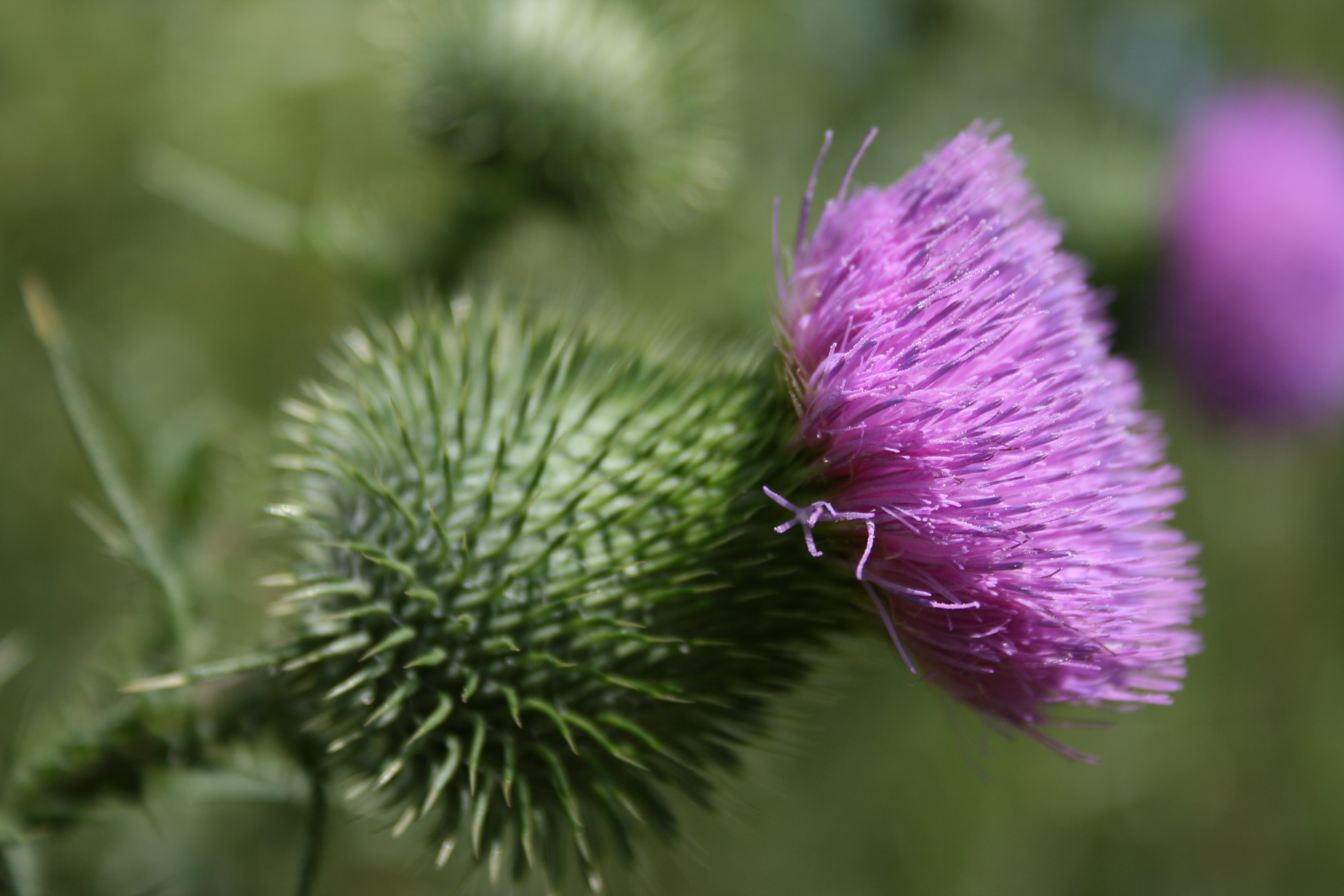 Spear Thistle Cirsium vulgare in Fort Custer Recreation Area, Augusta, MI.